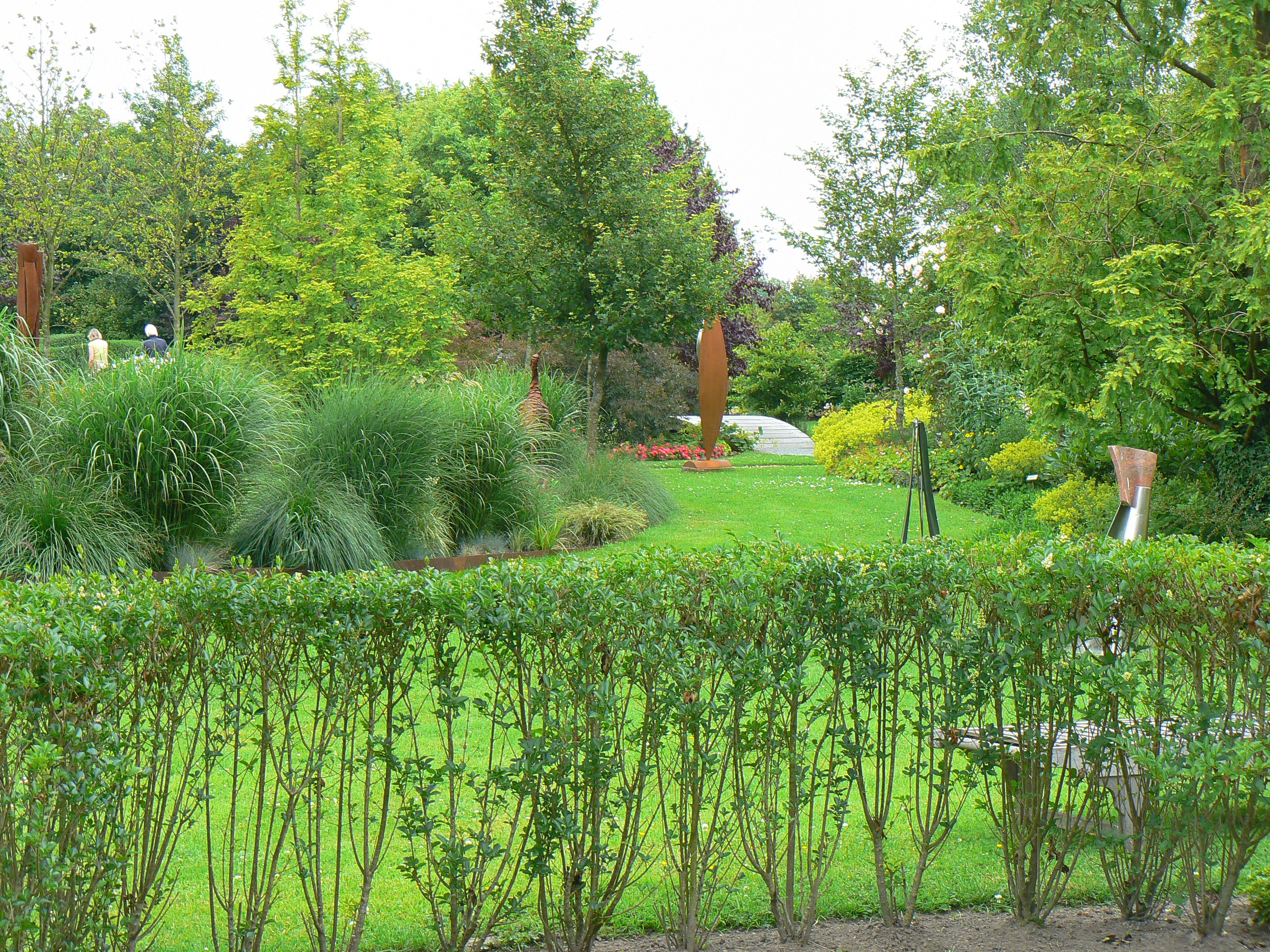 Sculpture Park Funnix in Funnix/Germany